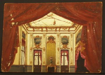 Description: Geronte's house. Set design for Act II of Manon Lescaut for the world premiere performance, Teatro Regio di Torino, 1 February 1893. Artist: Ugo Gheduzzi (Italian, 1853-1925) Provenance: Archivio Ricordi Milano